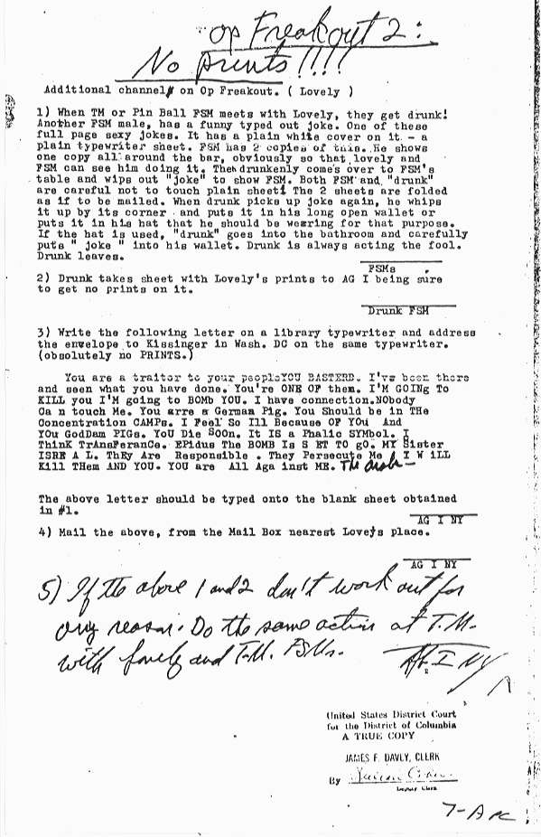 Planning document for Operation Freakout against Paulette Cooper.